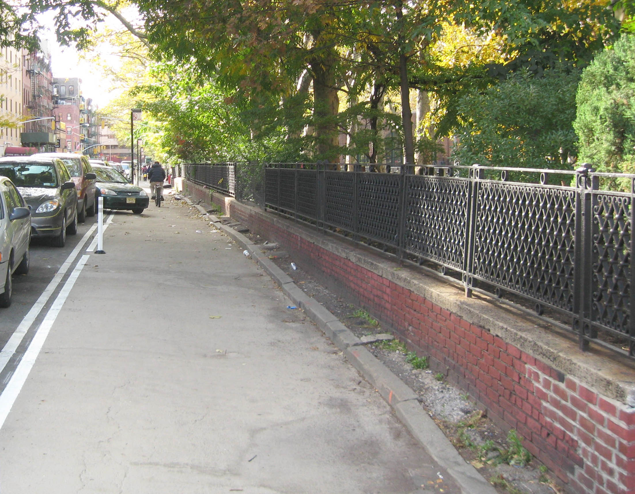 Looking south along the west side of Forsyth Street (Manhattan) from Delancey on a sunny late morning